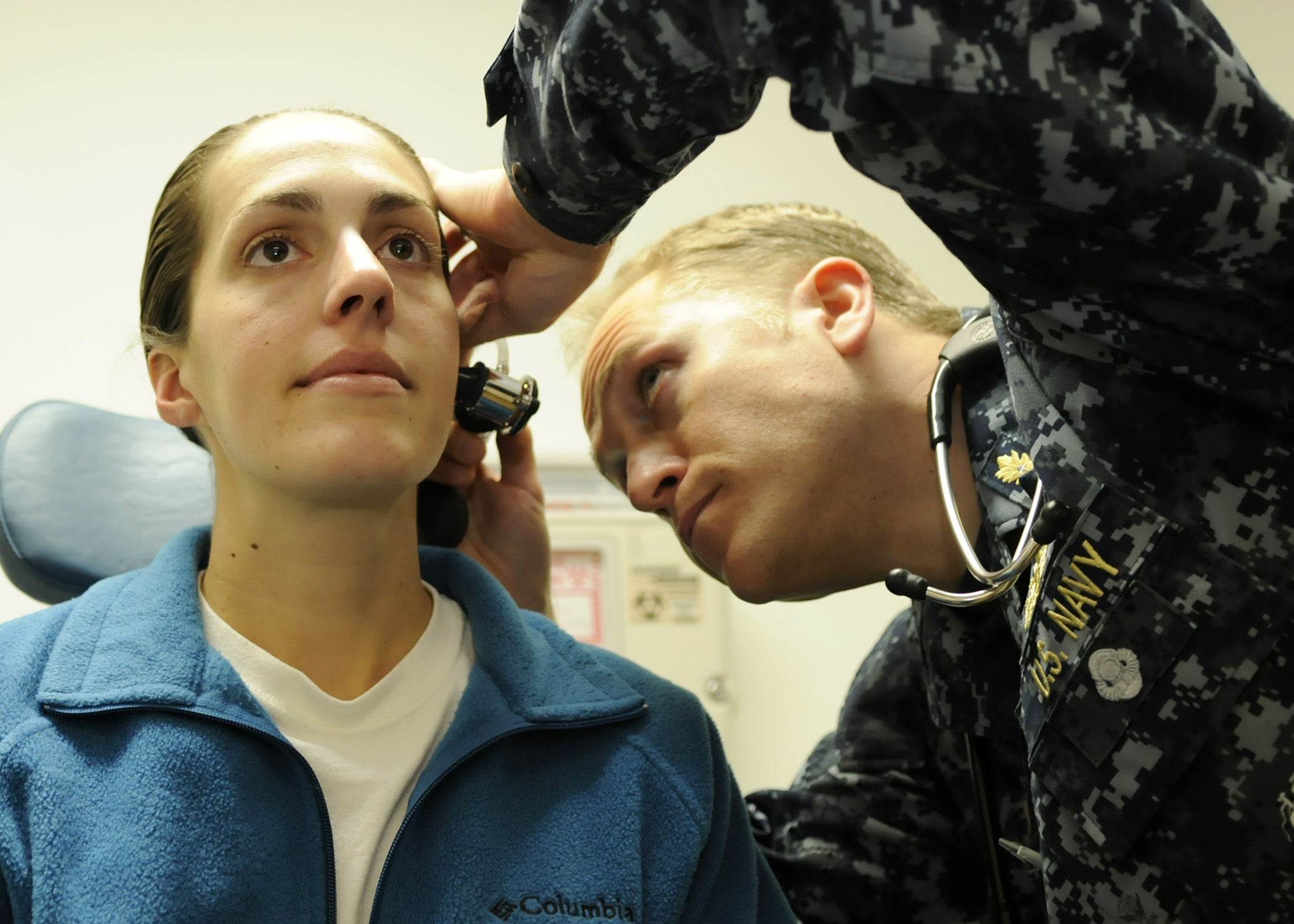 SAN DIEGO (Nov. 29, 2010) Lt. Edward R. Utz, a Graduate Medical Education program intern at Naval Medical Center San Diego, performs an ear exam on Lt. Sarah E. Dixon. The Graduate Medical Education program helps doctors develop clinical and professional skills in 24 accredited programs such as obstetrics gynecology, internal medicine and orthopedics. More than 70 interns are participating in the in the 2011 Graduate Medical Education program. (U.S. Navy photo by Mass Communication Specialist 2nd Class Chelsea A. Radford/Released)